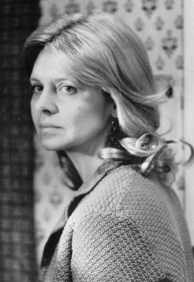 Publicity photo of American actress, Melinda Dillon, circa 1976.